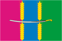 Vasyurinskoe (Krasnodar krai), flag